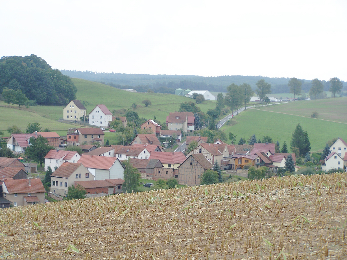 The upper part of Wolfsburg village.